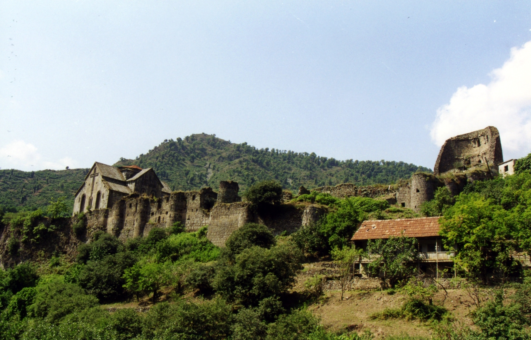 Akhtala fortress and monastery, Armenia